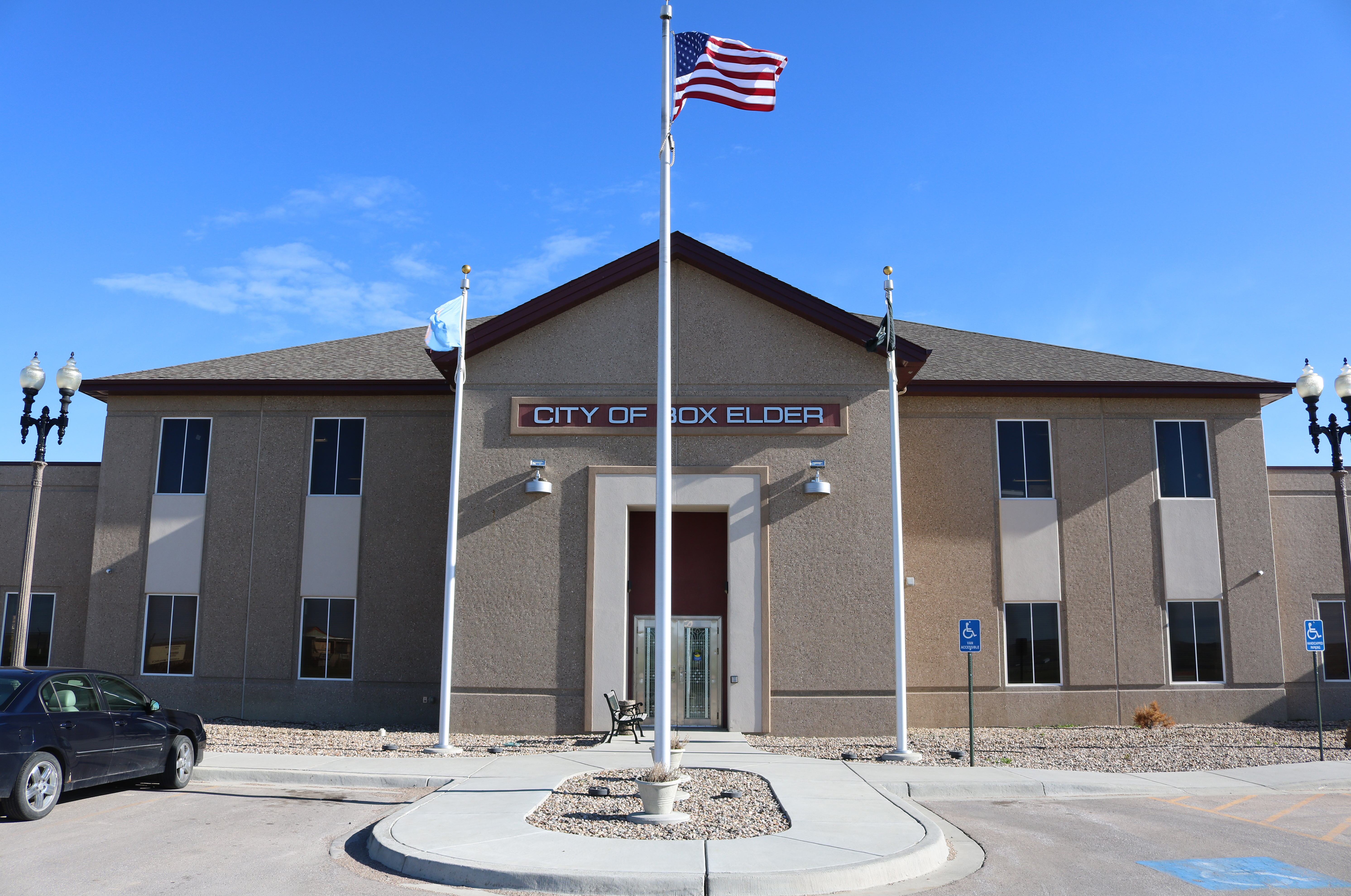 The city hall of Box Elder, South Dakota, located at 420 Villa Drive in Box Elder, South Dakota.